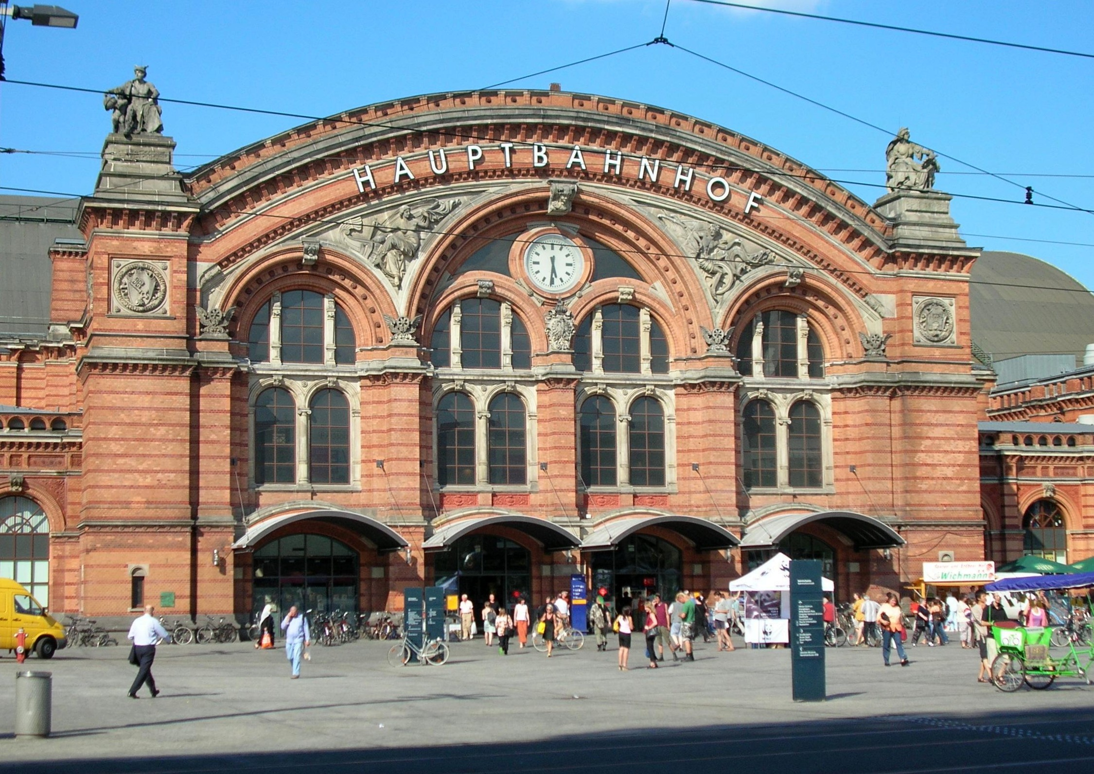 Station hall of Bremen Hbf, southern facade